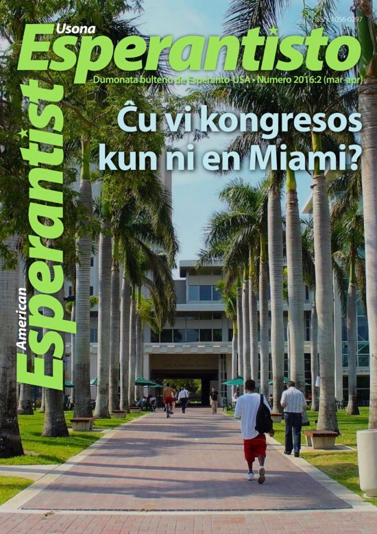 Cover page of “American Esperantist”, March-April 2016